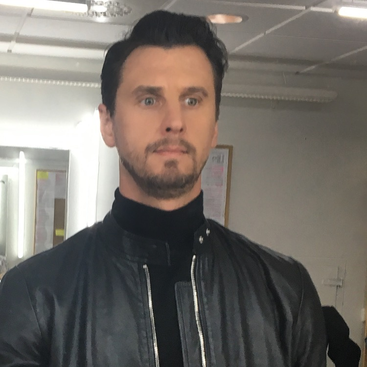 My Photo